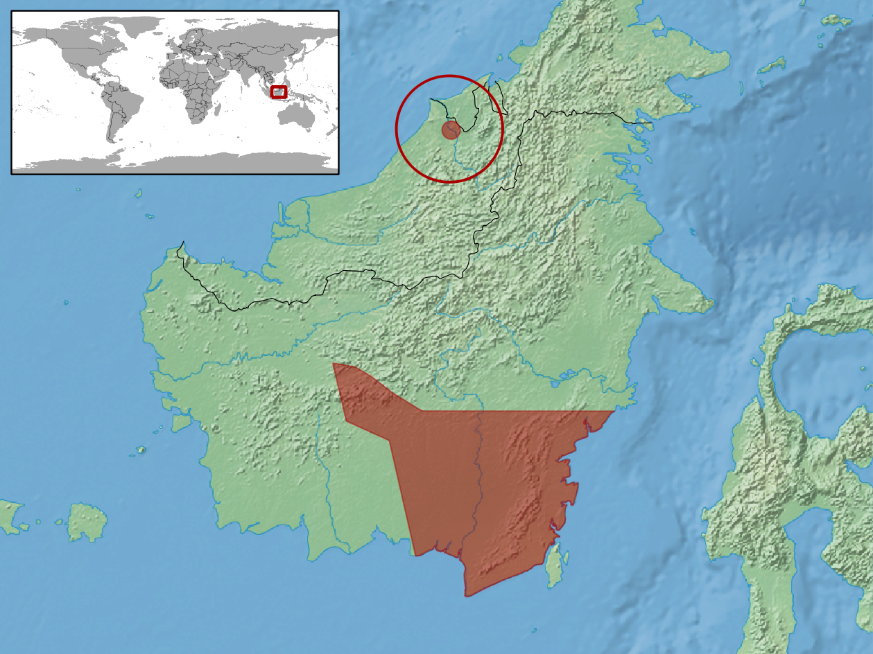 geographic distribution of Calamaria melanota (Native: Indonesia (Kalimantan); Malaysia (Sarawak))